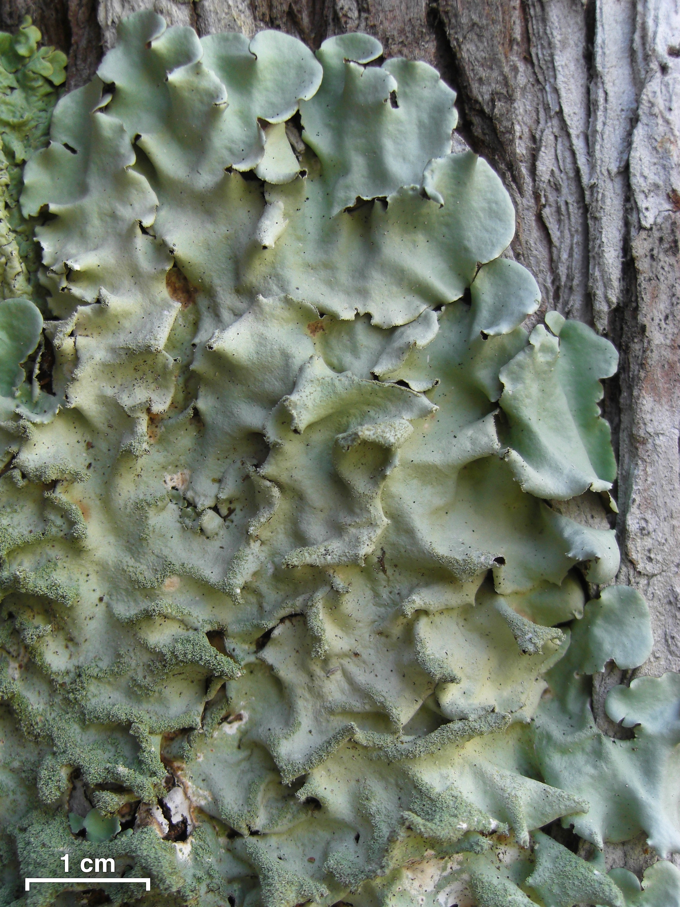 Big Cypress Preserve, Florida, 20131217-8